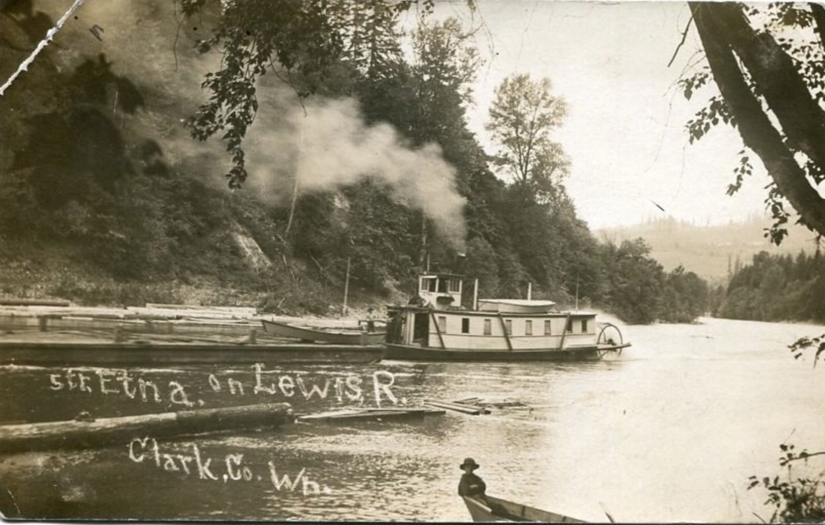 Steamer Etna pushing a barge on the Lewis River, 1911 or before. Postcard mailed May 8, 1911.